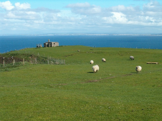 Inishowen Head. Showing sheep grazing near the old lookout post. Portrush and Portstewart in the distance.